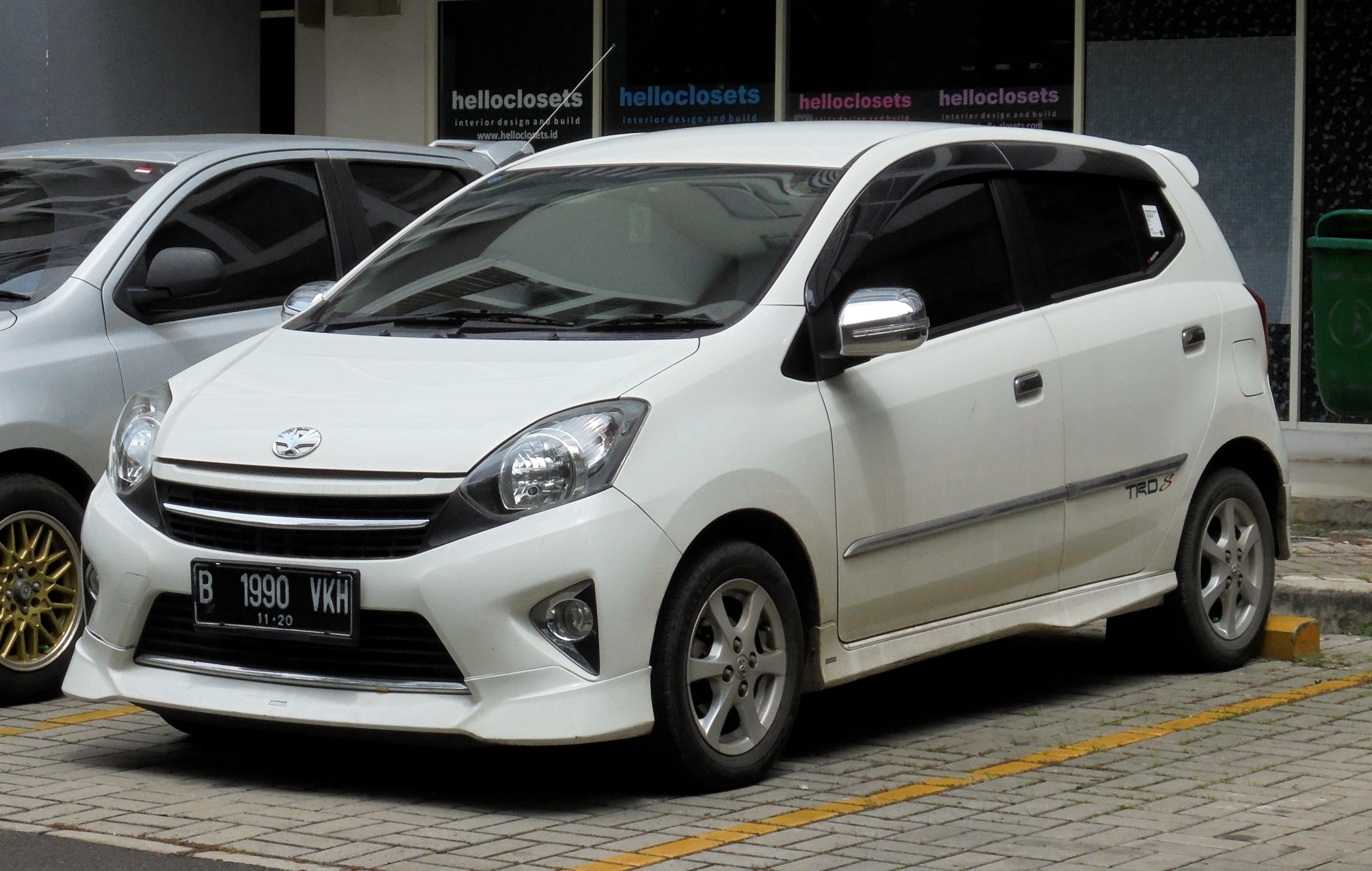 2015 Toyota Agya 1.0 G TRD S hatchback (B100RA) photographed in South Tangerang, Banten, Indonesia.